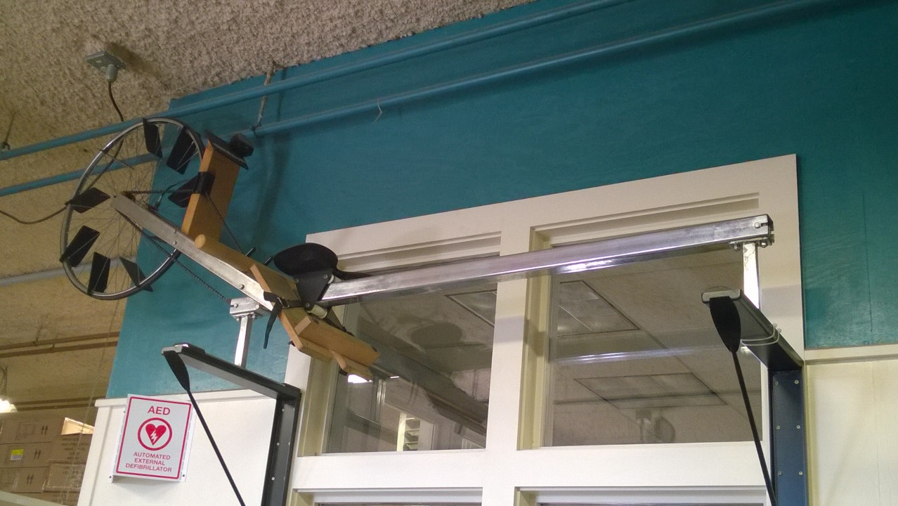 Scenes from a factory tour at Concept2 in Morrisville, Vermont